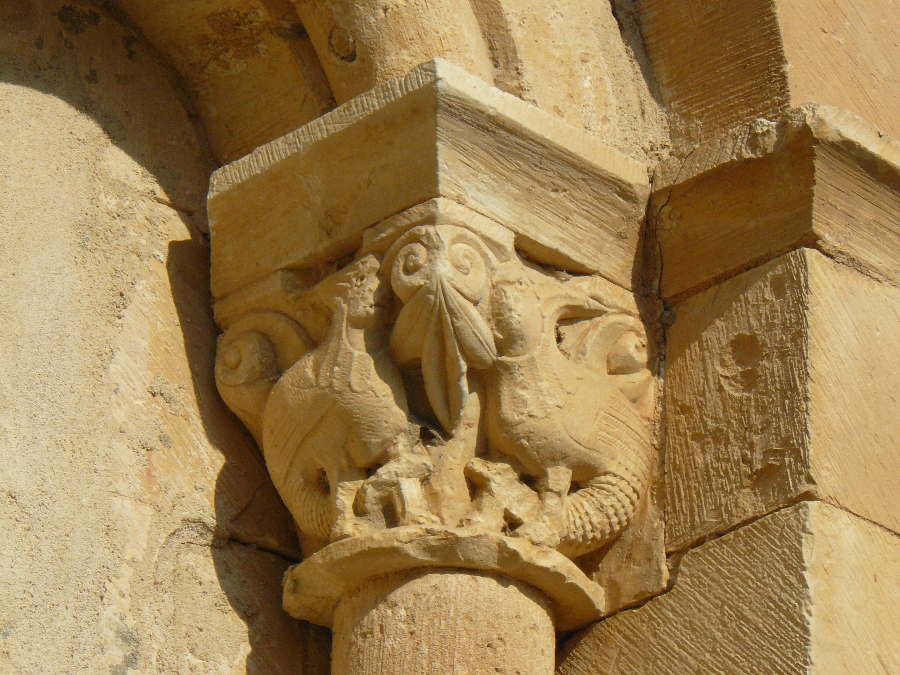 Fantastic beasts, capital of the apse window, Church Nuestra Señora de la Natividad, Duruelo Segovia (Spain)